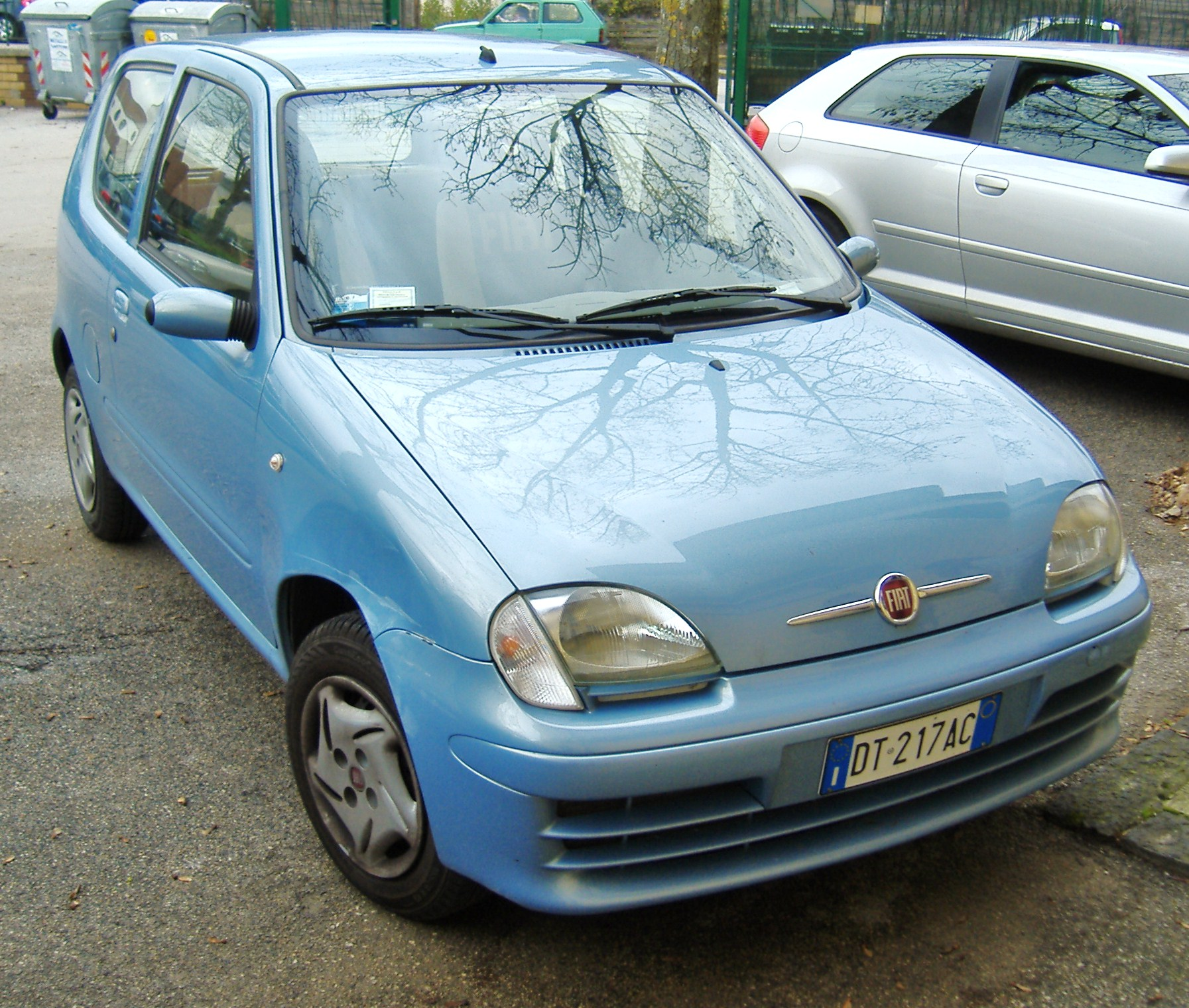 Fiat 600 Active 2010.